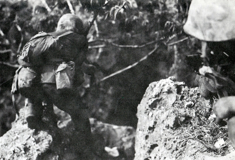 Holding a Colt M1911, a US Marine moves cautiously through the jungle of Saipan, July 1944.